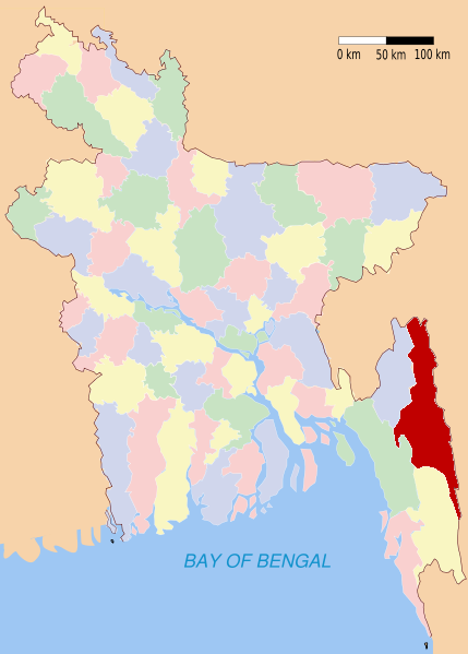 District locator map in red in Bangladesh